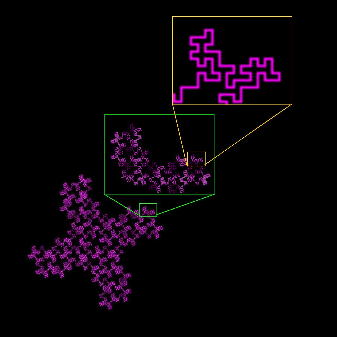 32 segment quadric fractal at varying levels of resolution